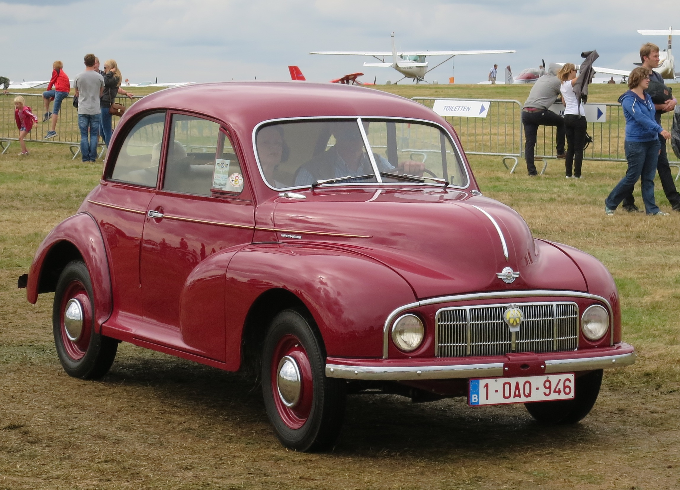 Morris Minor MM (low-lights) manufactured 1950: photographed 2015